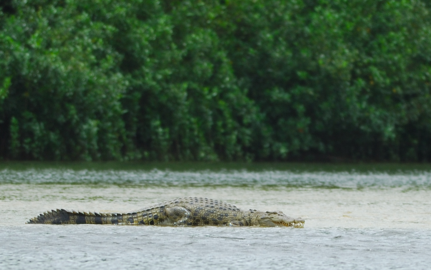 female saltwater crocodile